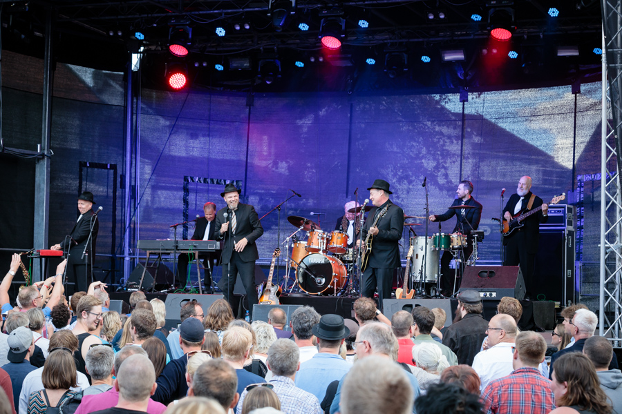 Vazelina Bilopphøggers with Vazelina Bilopphøggers at the stage of Gamle Norge. The concert was part of Kongsberg Jazzfestival and took place on 08. July 2017. Lineup: Eldar Vågan (guitar / vocal) Arnulf Paulsen (drums) Jan Einar Johnsen (saxophone) Kjetil Foseid (guitar / vocal) Terje Methi (bass guitar) Tor Welo (keyboard) Even Finsrud (drums)